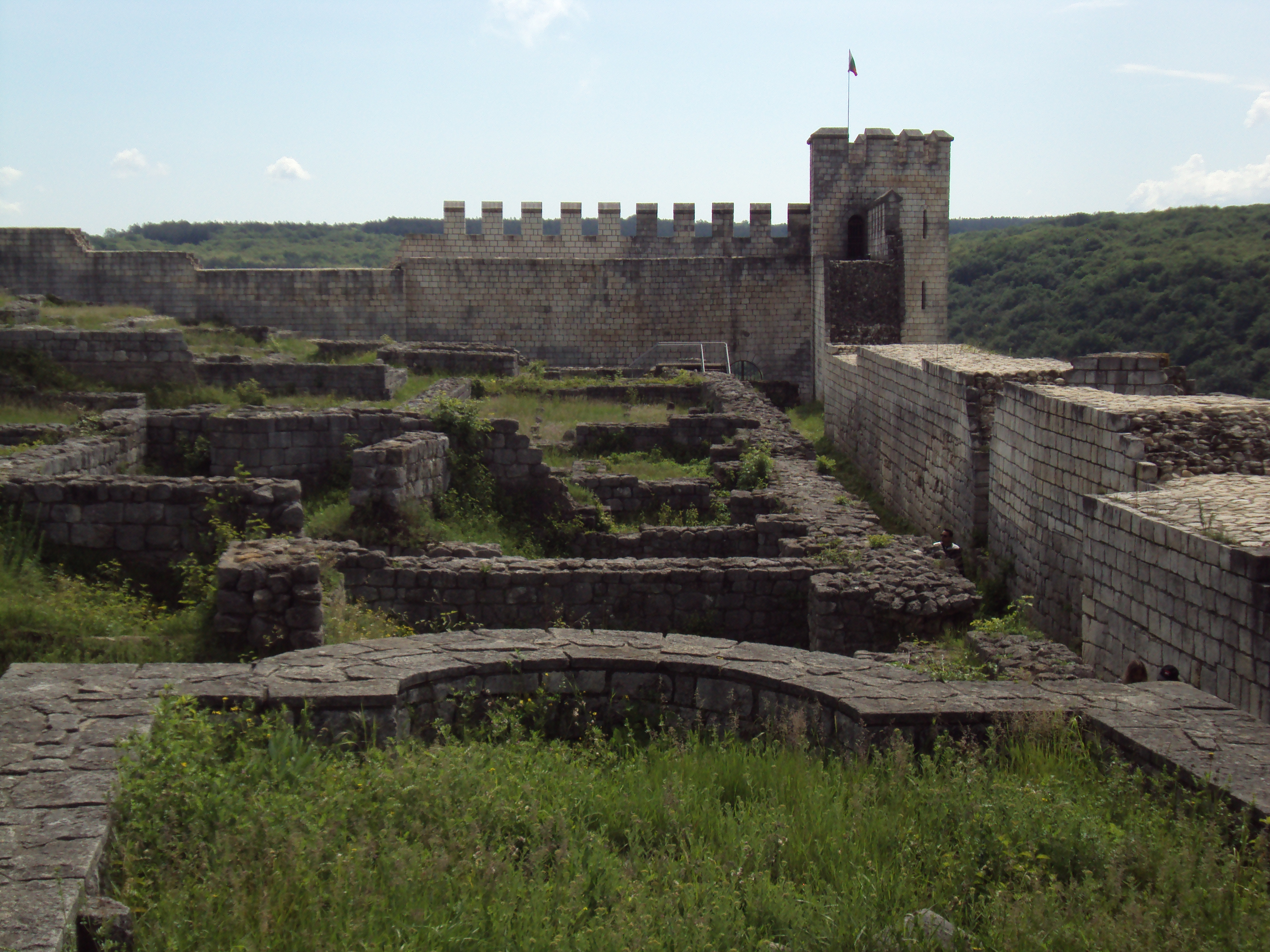 Shumen Fortress